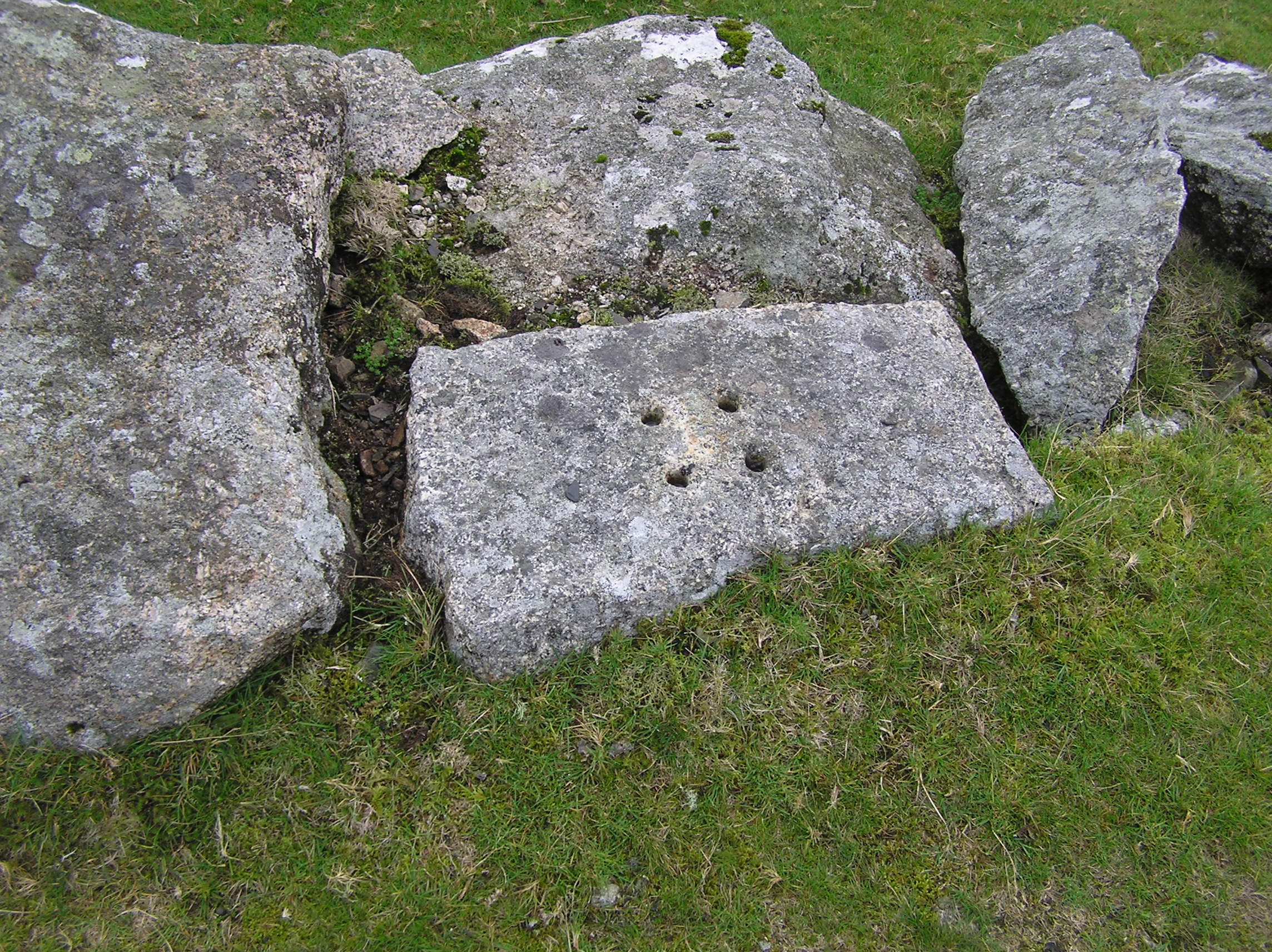 On Plymouth & Dartmoor Railway England old sleeper block